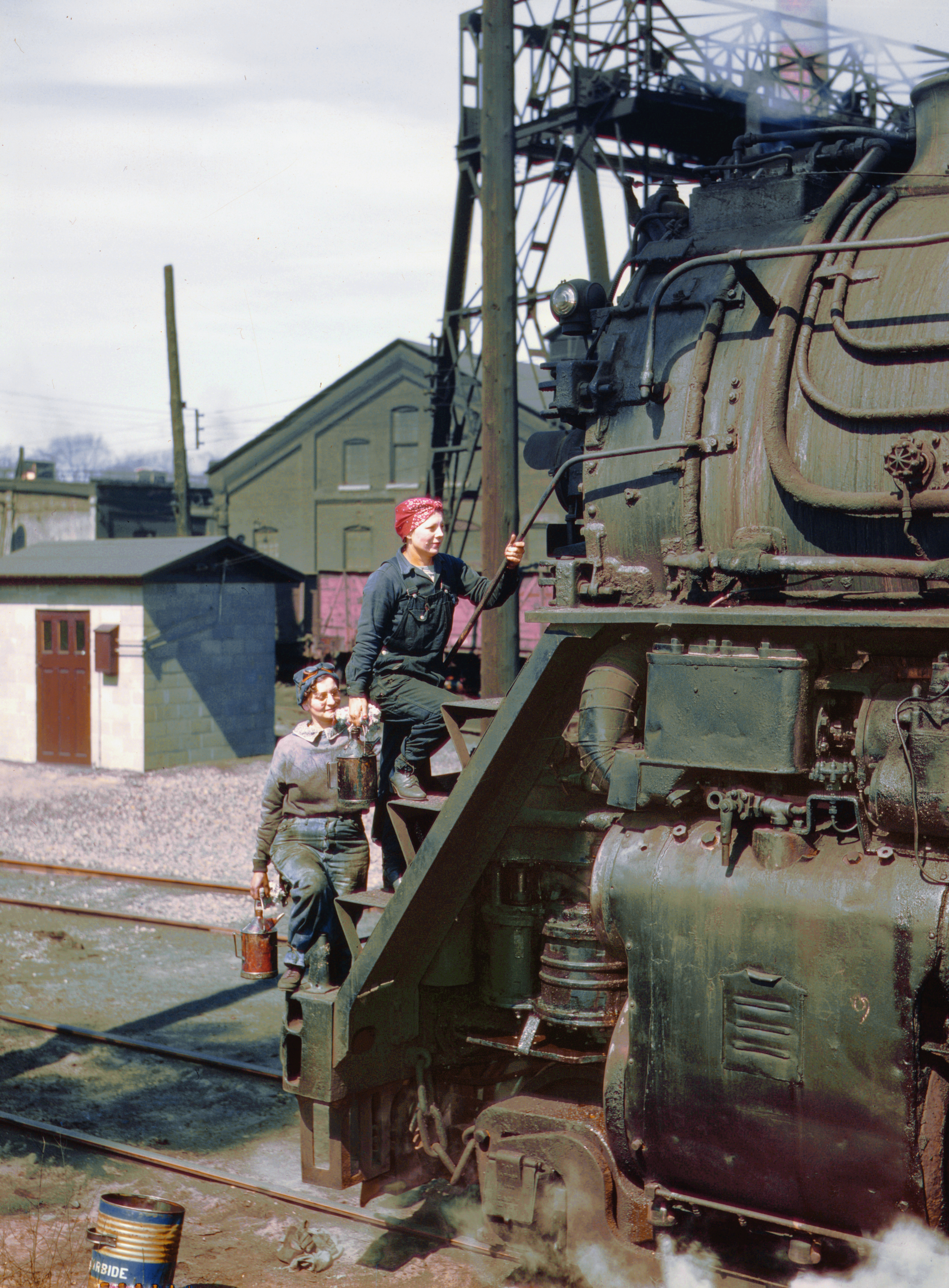 Women wipers of the Chicago and North Western Railroad cleaning one of the giant "H" class locomotives, Clinton, Iowa. Mrs. Marcella Hart and Mrs. Viola Sievers.